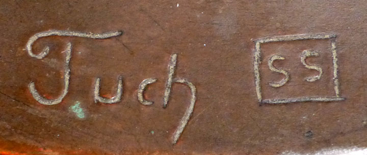 Signatur Professor Tuch aka Bruno Zach